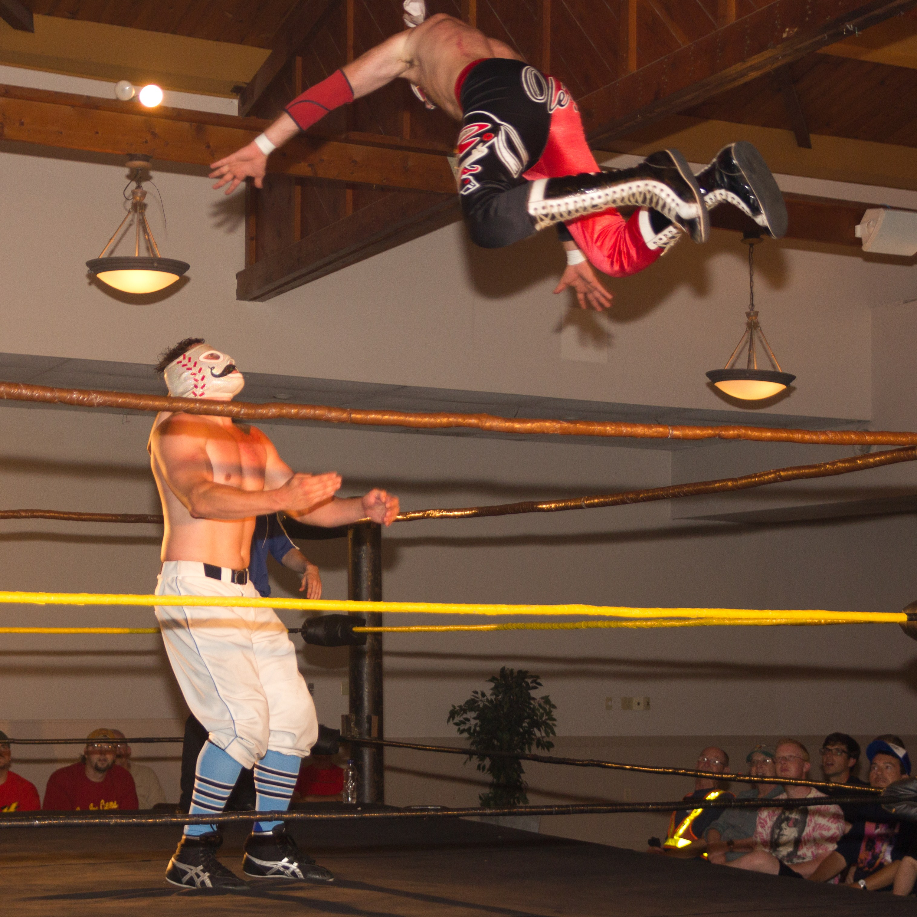 Wrestler El Generico (in black and red trunks) executing a cross-body splash on Dash Hatfield at Chikara's A Foggiest Notion show in Strathroy, ON